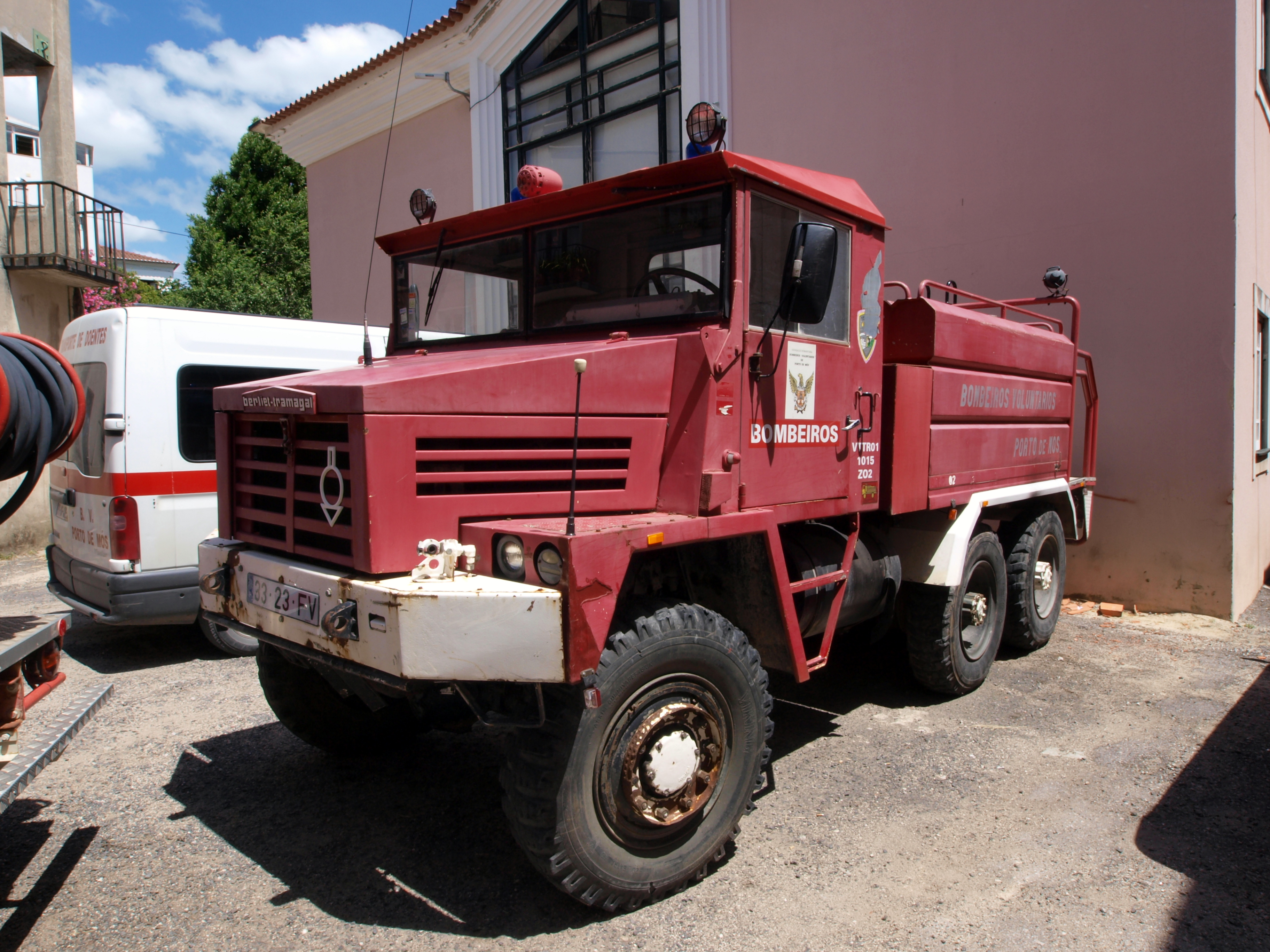 Photographed in Portugal.